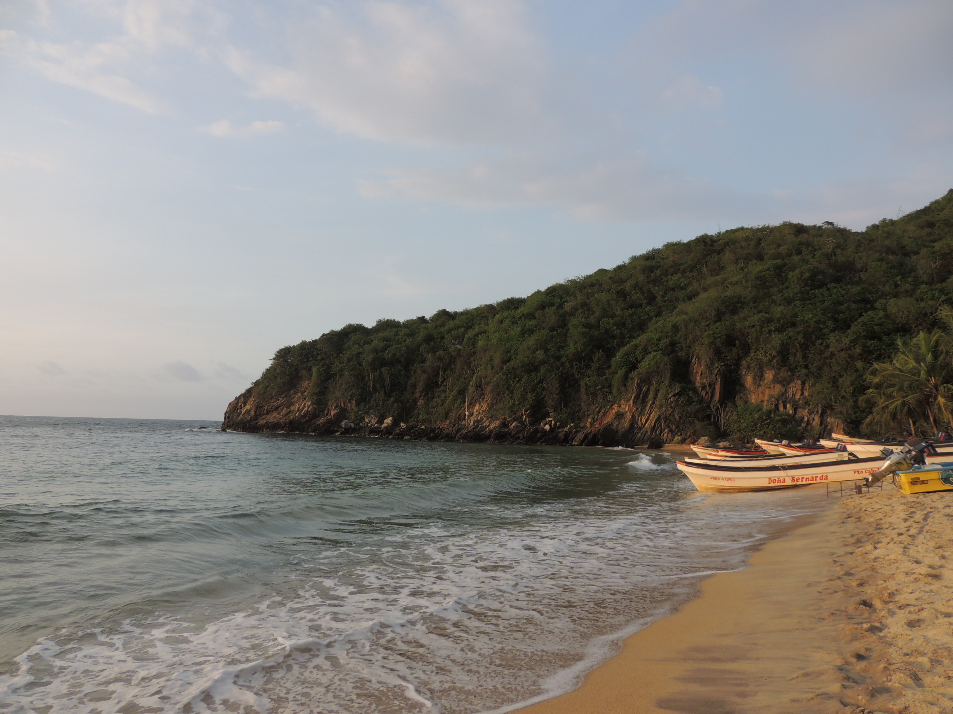 Sunset on the Bay of Cepe, Aragua